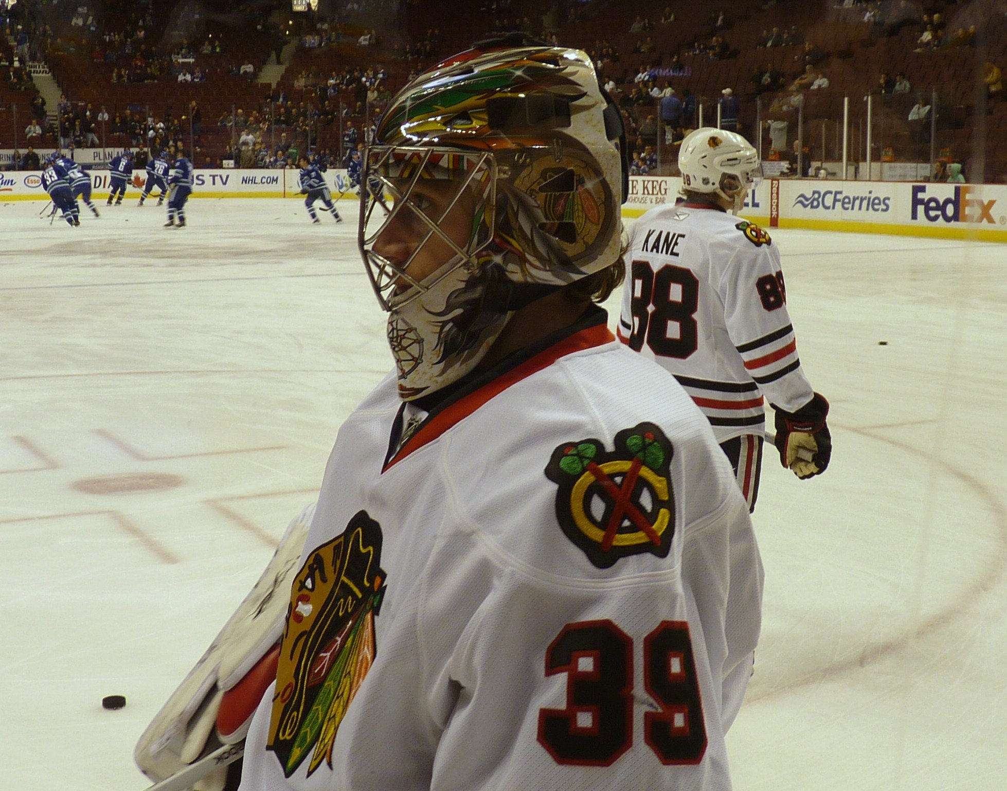 Cristobal Huet with the Chicago Blackhawks in a game against the Vancover Canucks